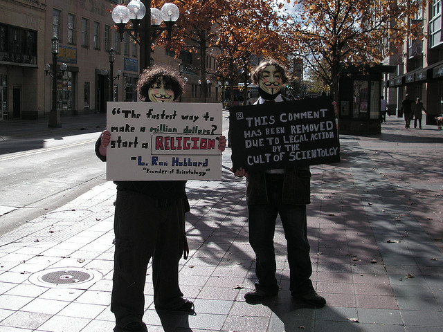 Anonymous protest against the human rights abuses of the criminal organization commonly known as the "church" of scientology on October 31, 2009 in Minneapolis, Minnesota. For more information see the St. Petersburg Times which has done a series of articles about the human rights abuses going on inside this cult.